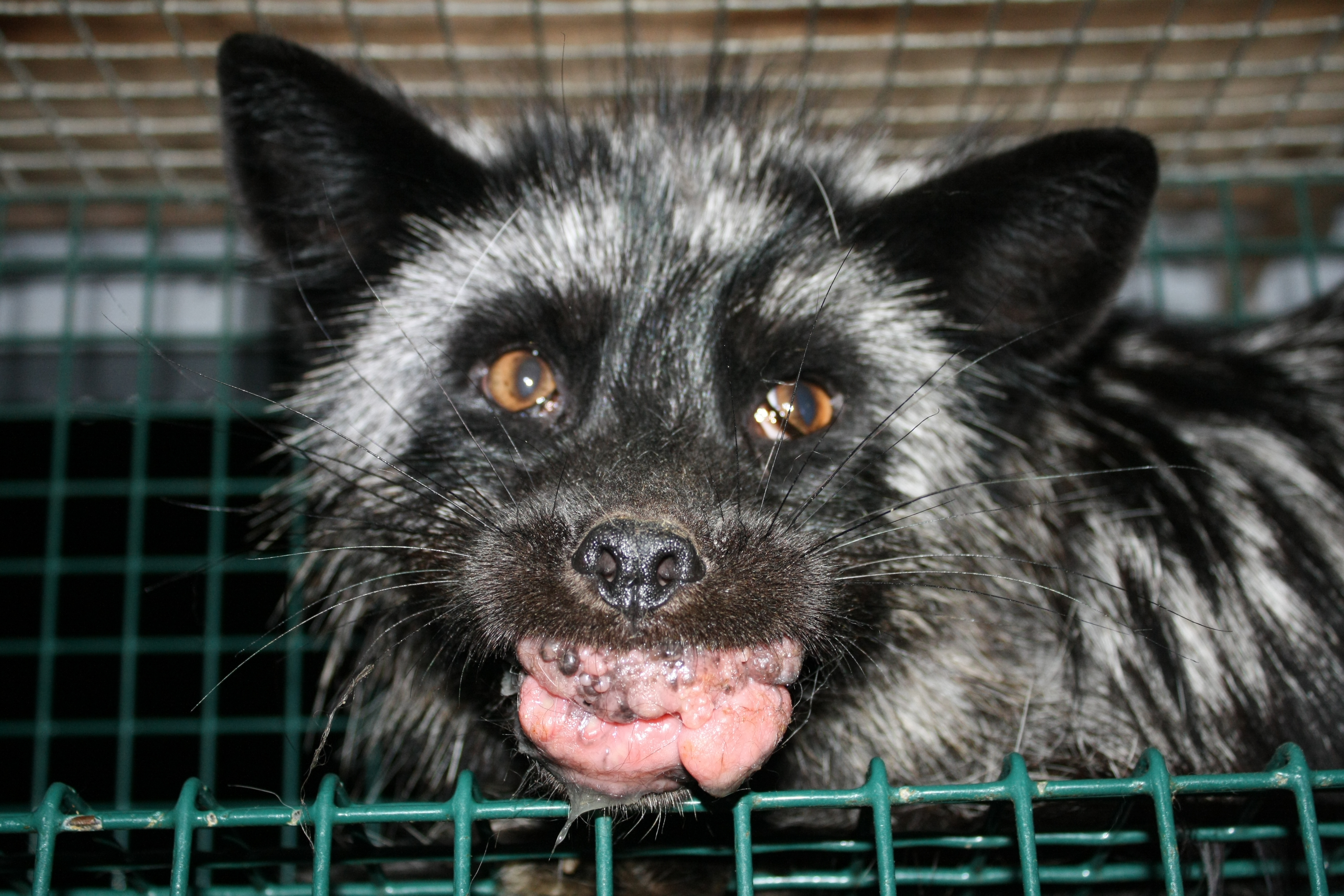 Fur farm in Veteli, Finland. This photograph was published by the Finnish animal rights organisation Oikeutta eläimille ("Justice for Animals") after an undercover investigation of Finnish fur farms.